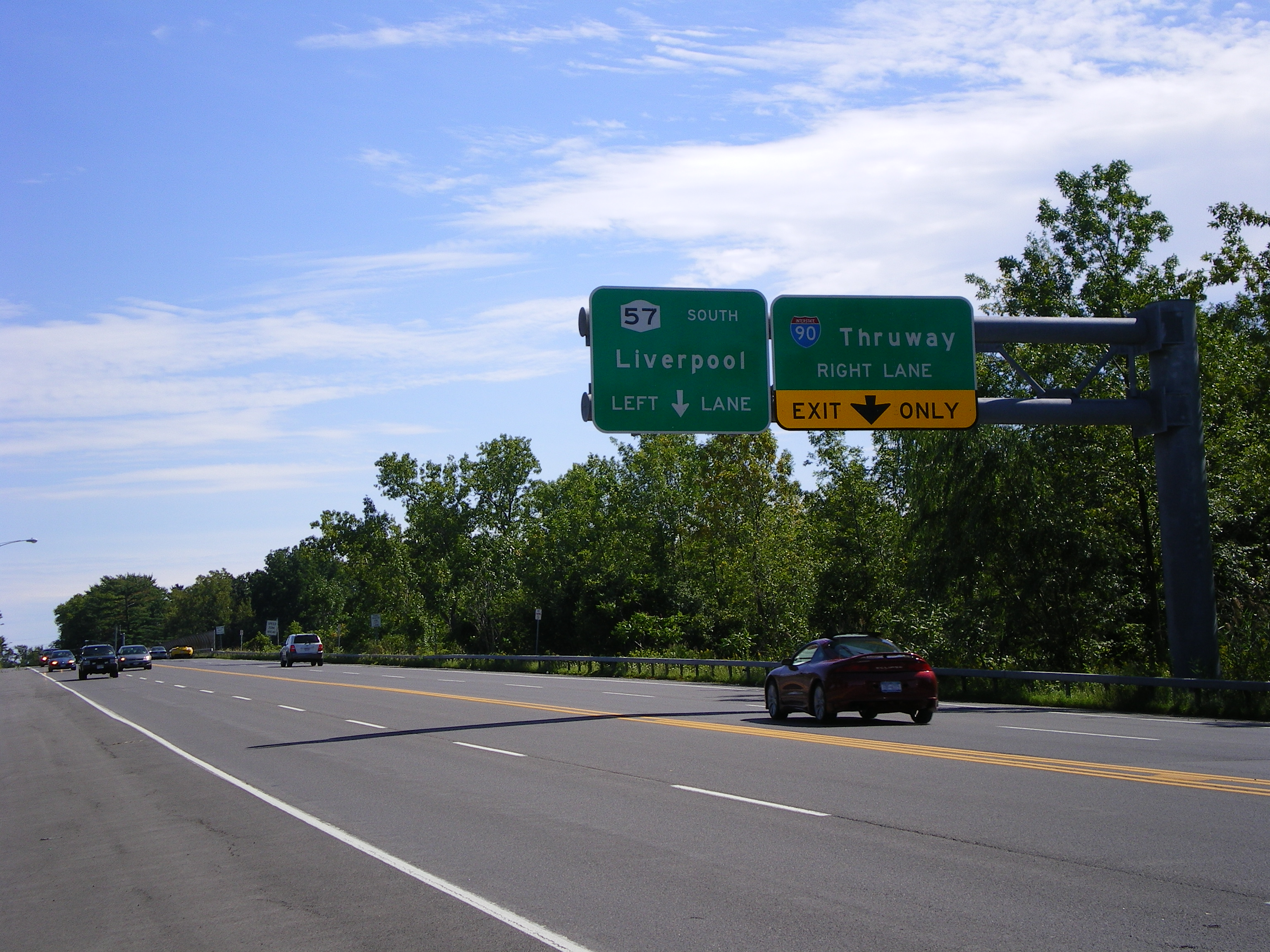 This overhead sign at New York State Thruway exit 38 near Liverpool erroneously identifies Onondaga County's County Route 91 (signed as CR 57) as New York State Route 57. This sign is fairly new; however, the NY 57 designation was removed in 1982.